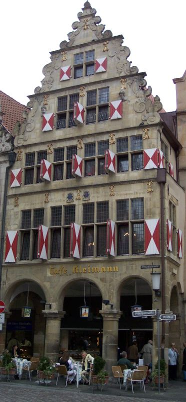 Window shutters in Münster, Germany eigenes Bild von Stahlkocher